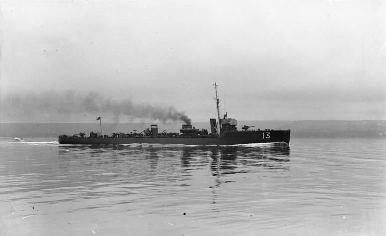 Photograph of British Acasta class destroyer underway at Invergordon.